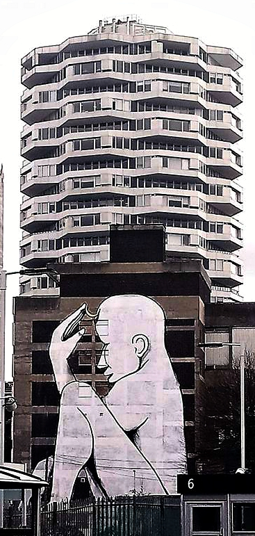 Public art in Croydon, London